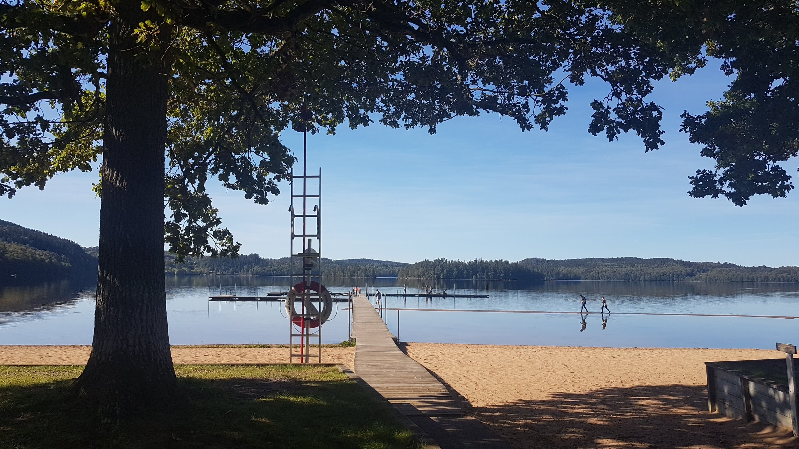 The beach at Lygnared camping